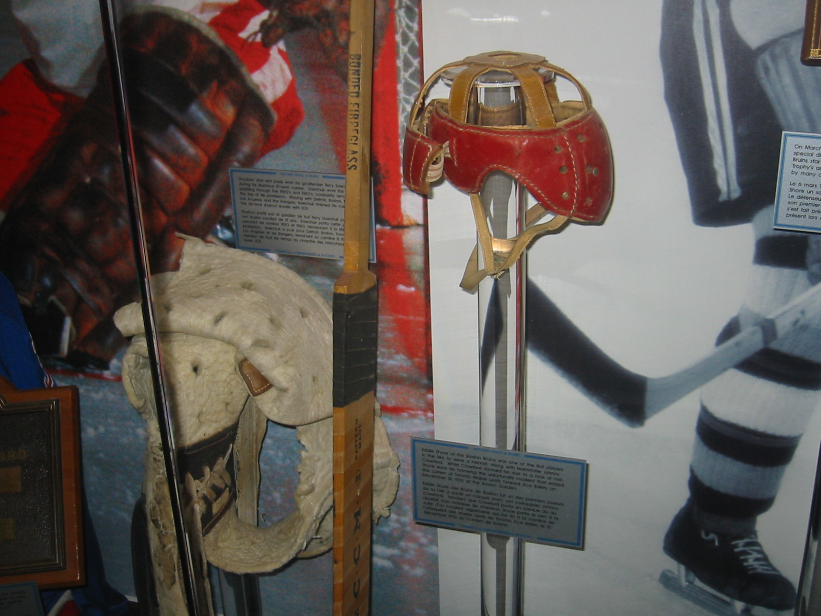 Terry Sawchuk's helmet